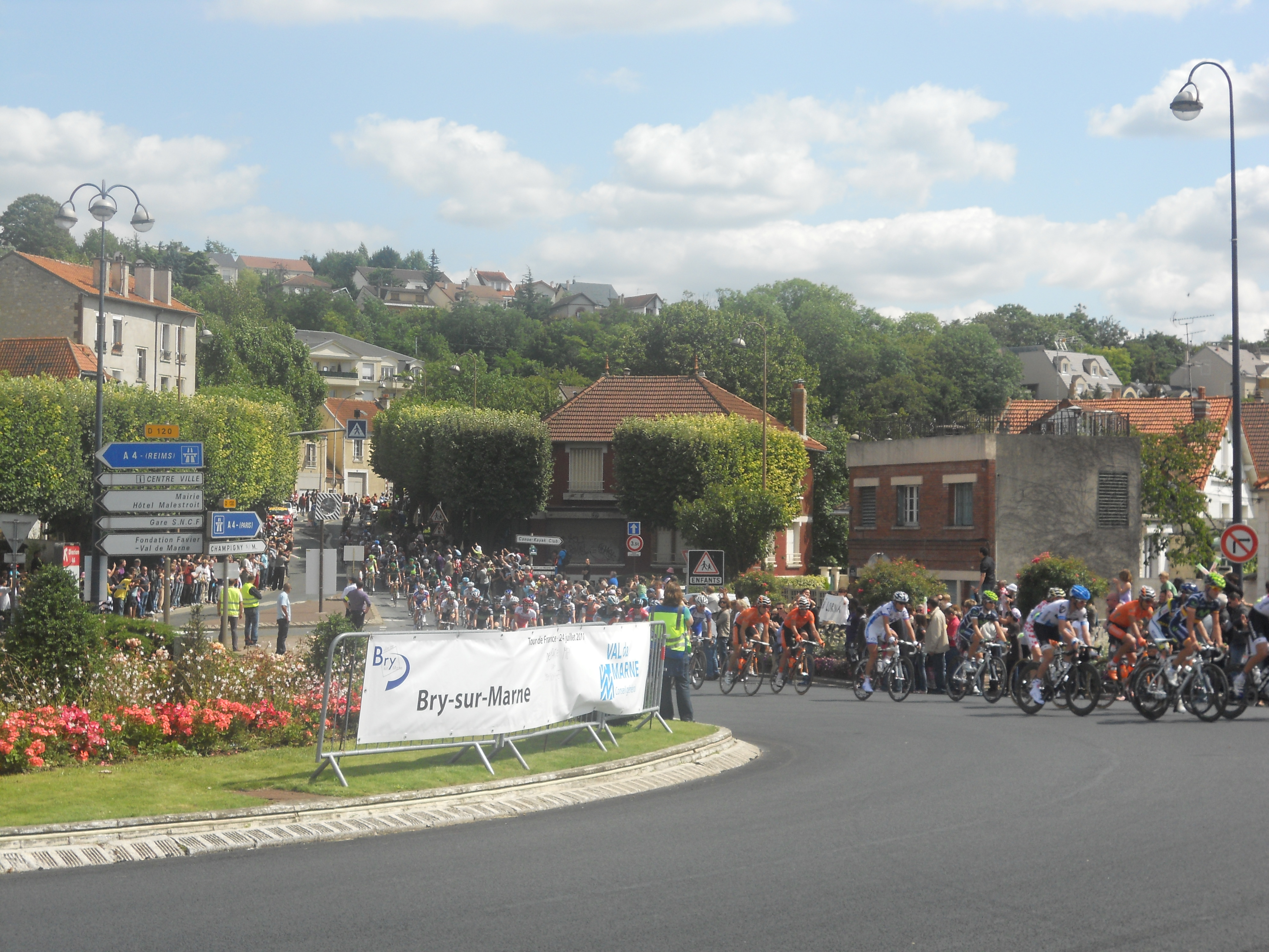 The Tour de France passing through the town of Bry-sur-Marne (in the suburbs of Paris) in July 2011.